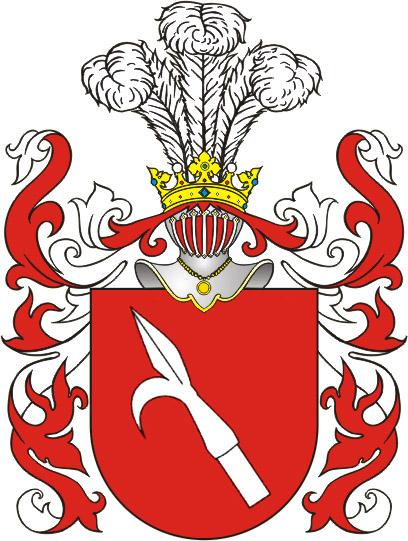 Herb Osek Clan This image was uploaded in the JPEG format even though it consists of non-photographic data. This information could be stored more efficiently or accurately in the PNG or SVG format. If possible, please upload a PNG or SVG version of this image without compression artifacts, derived from a non-JPEG source (or with existing artifacts removed). After doing so, please tag the JPEG version with Superseded|NewImage.ext and remove this tag. This tag should not be applied to photographs or scans. For more information, see BadJPEG .